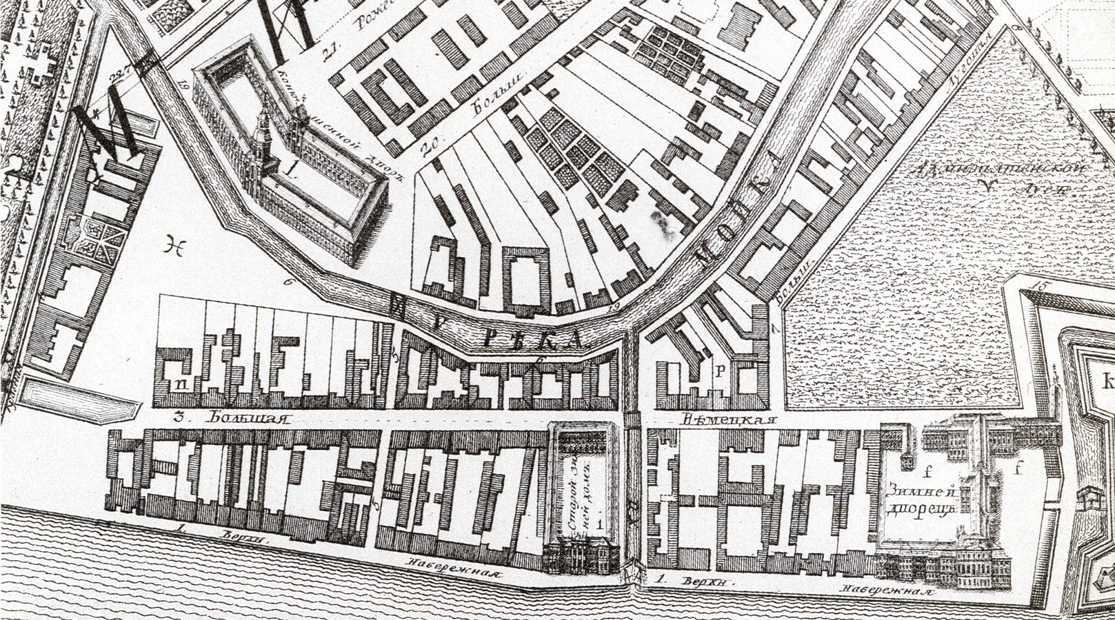 Detail of the map of St. Petersburg. 1753 German Quarter in St. Petersburg.